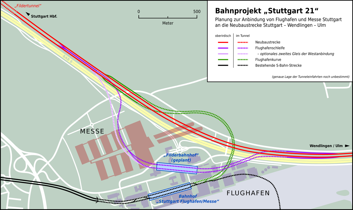 "Stuttgart 21" project: planning of airport railway connection with planned Stuttgart–Wendlingen–Ulm high-speed railway in Stuttgart, Germany